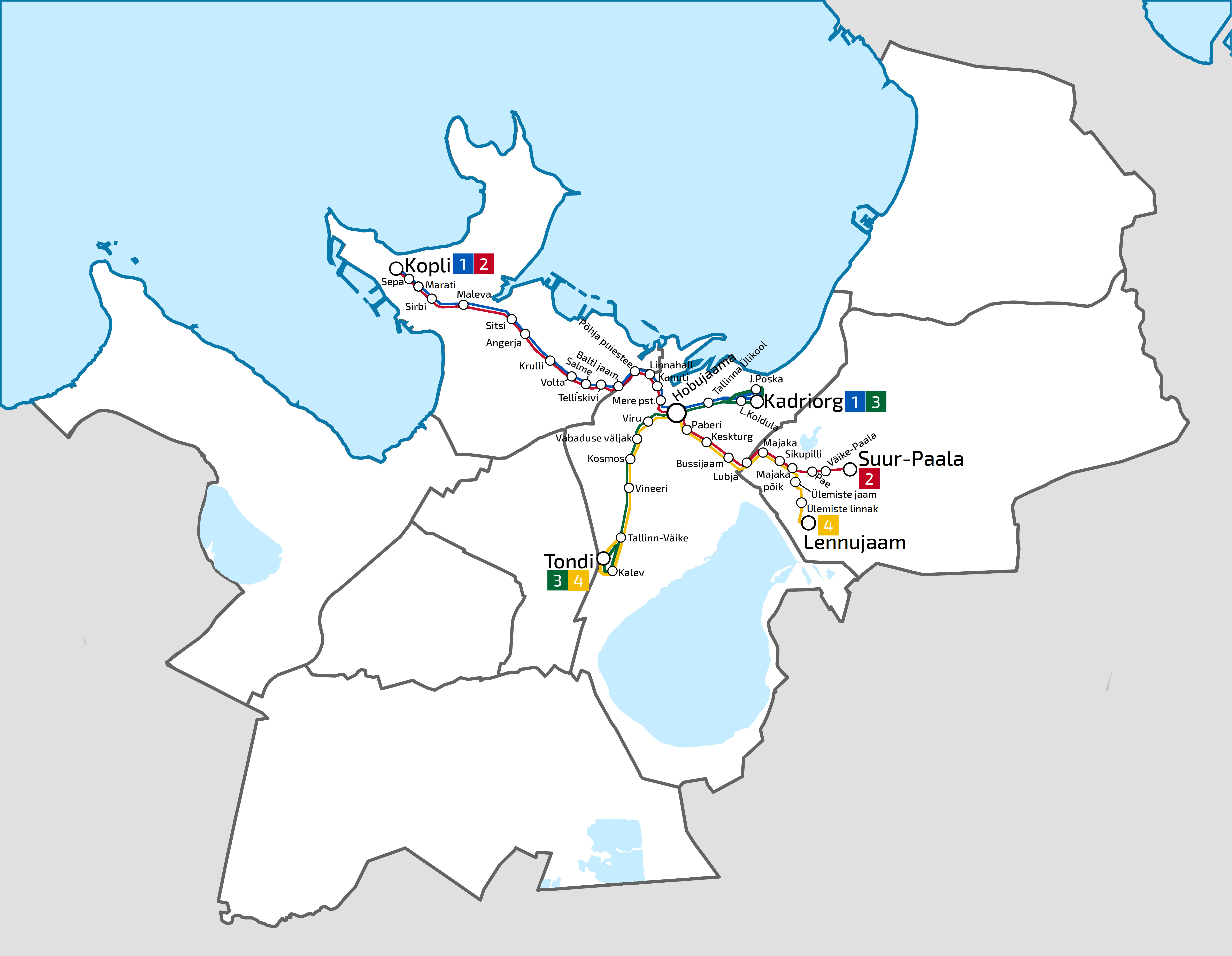 Tallinn tram network